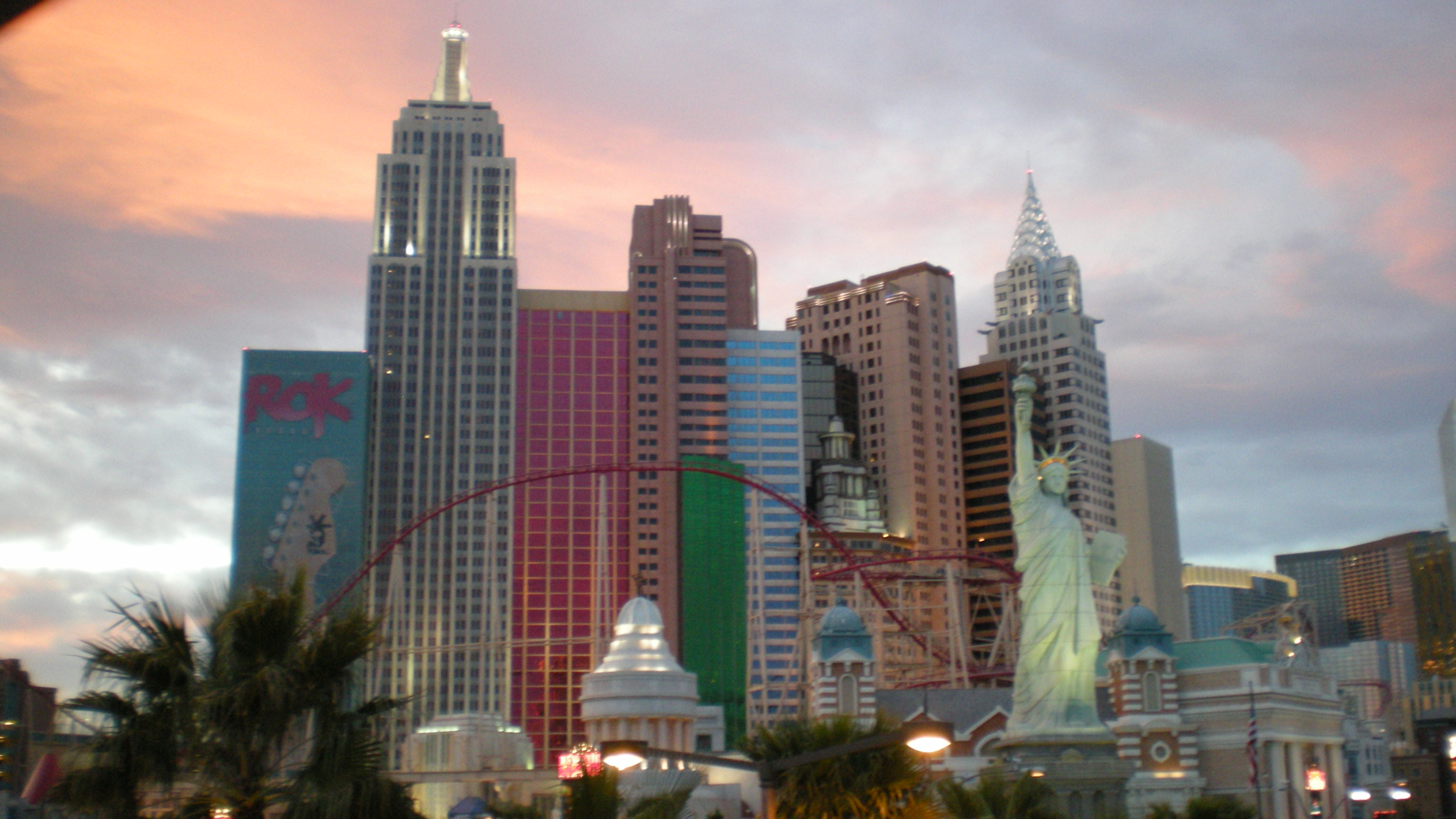 New York-New York